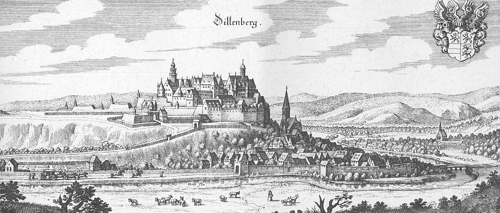 This is a scan of the historical document: Title: Dillenburg - Topographia Hassiae language: german